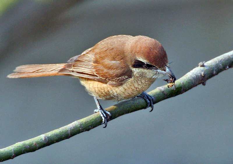 Brown Shrike ((Lanius cristatus)) in Kolkata, West Bengal, India.